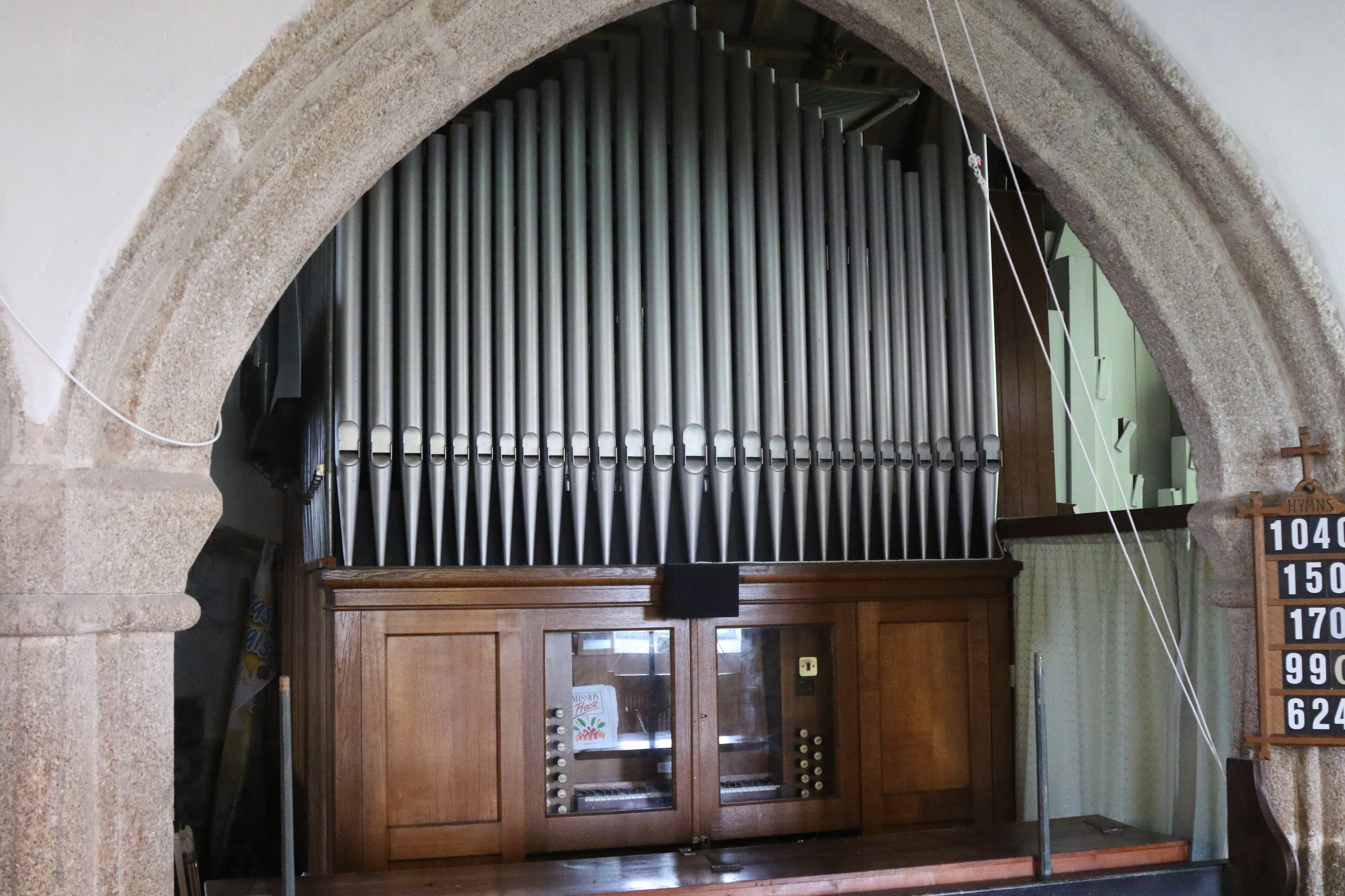 By Hele and Company